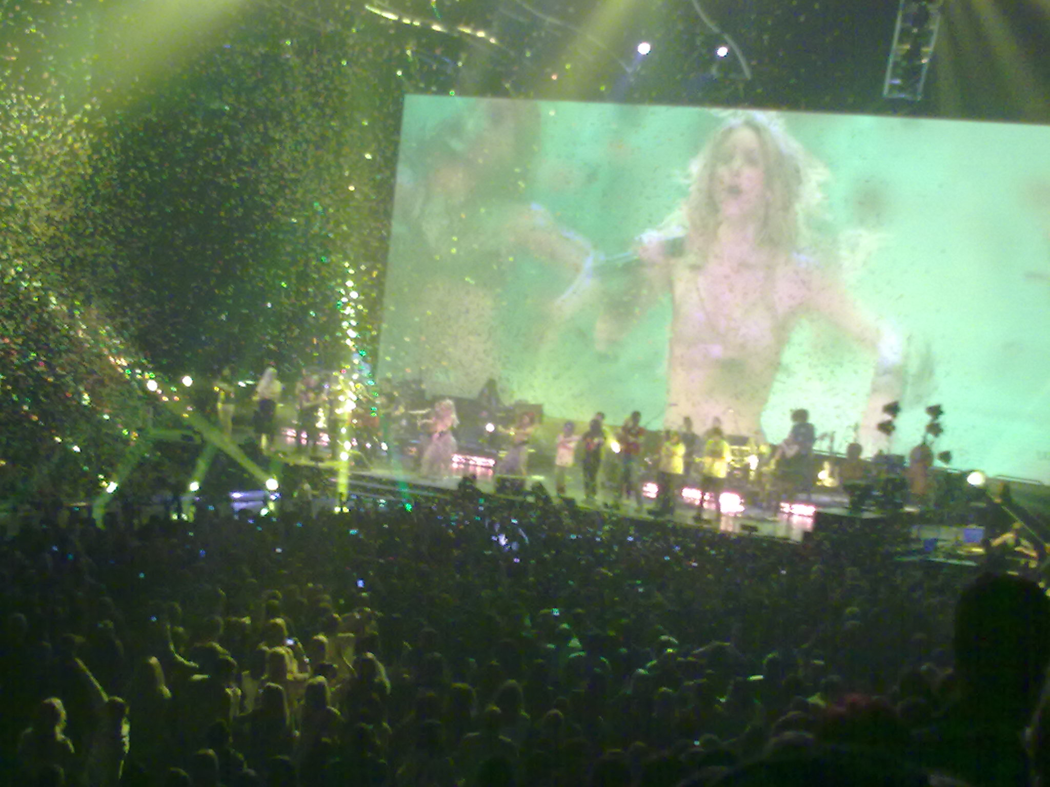 Shakira performing her encore during her Sun Comes Out World Tour in Manchester.